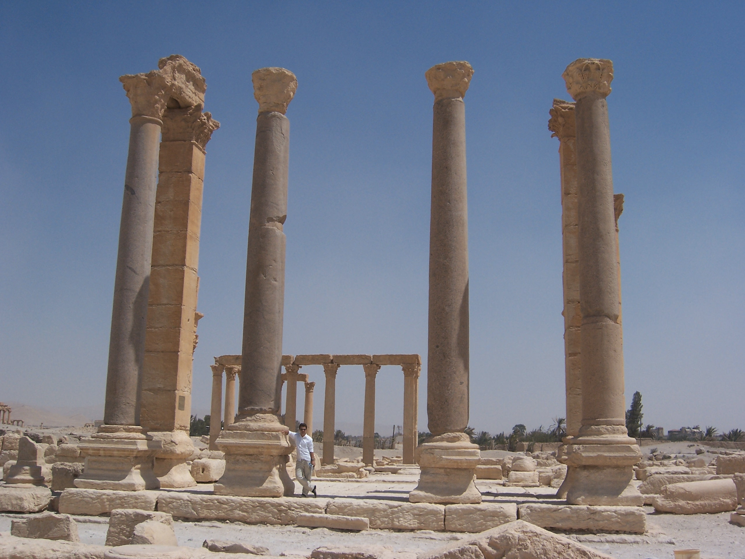 Palmyra (/ˌpælˈmaɪərə/; Arabic: تدمر; Tadmur; Aramaic: ܬܕܡܘܪܬܐ; Hebrew: תַּדְמוֹר, Modern Tadmor Tiberian Taḏmôr; Ancient Greek: Παλμύρα) was an ancient Aramaic city in central Syria. In antiquity, it was an important city located in an oasis 215 km (134 mi) northeast of Damascus and 180 km (110 mi) southwest of the Euphrates at Deir ez-Zor. It had long been a vital caravan stop for travellers crossing the Syrian desert and was known as the Bride of the Desert. The earliest documented reference to the city by its Semitic name Tadmor, Tadmur or Tudmur (which means "the town that repels" in Amorite and "the indomitable town" in Aramaic) is recorded in Babylonian tablets found in Mari.